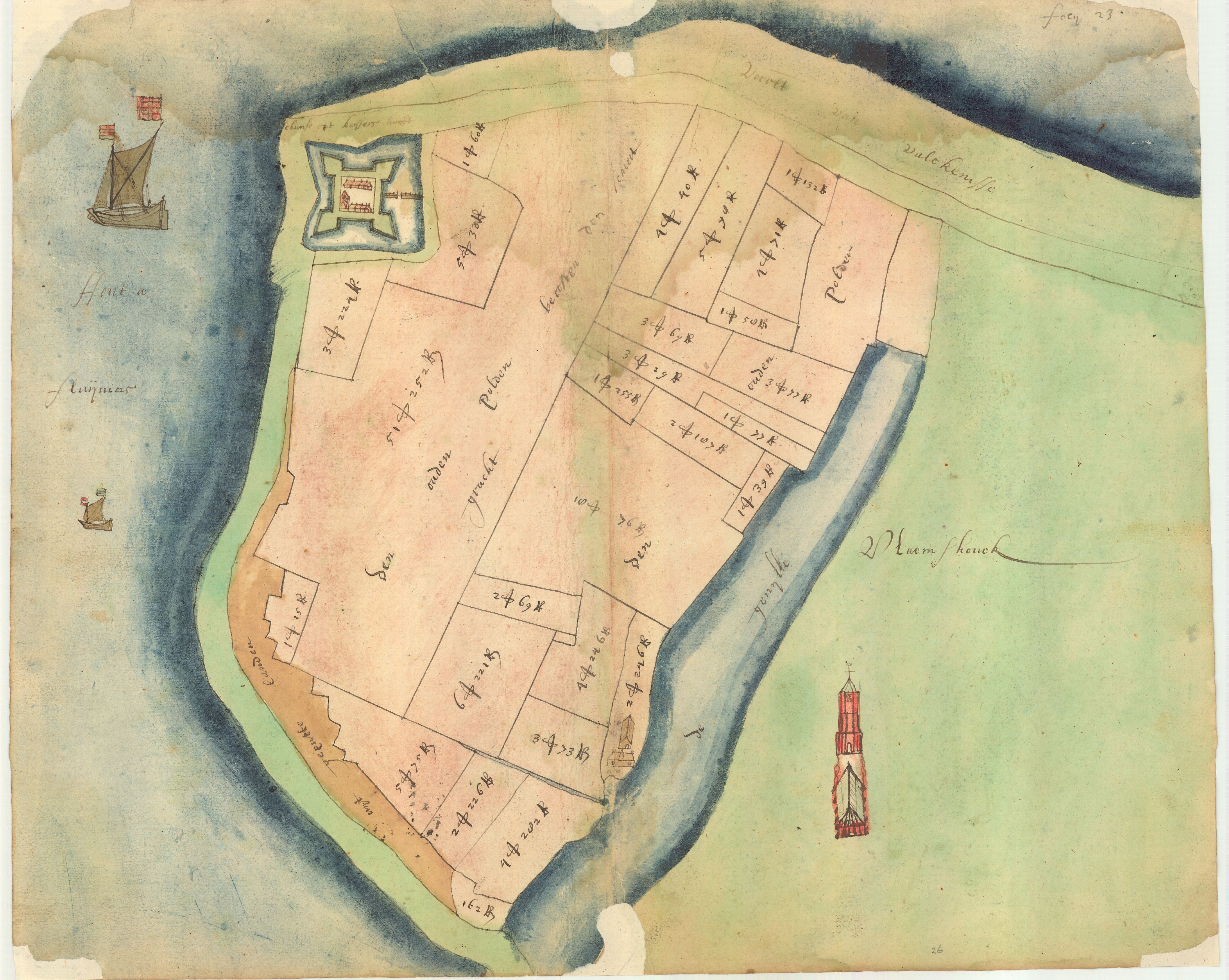 Valkenisse, Zuid-Beveland